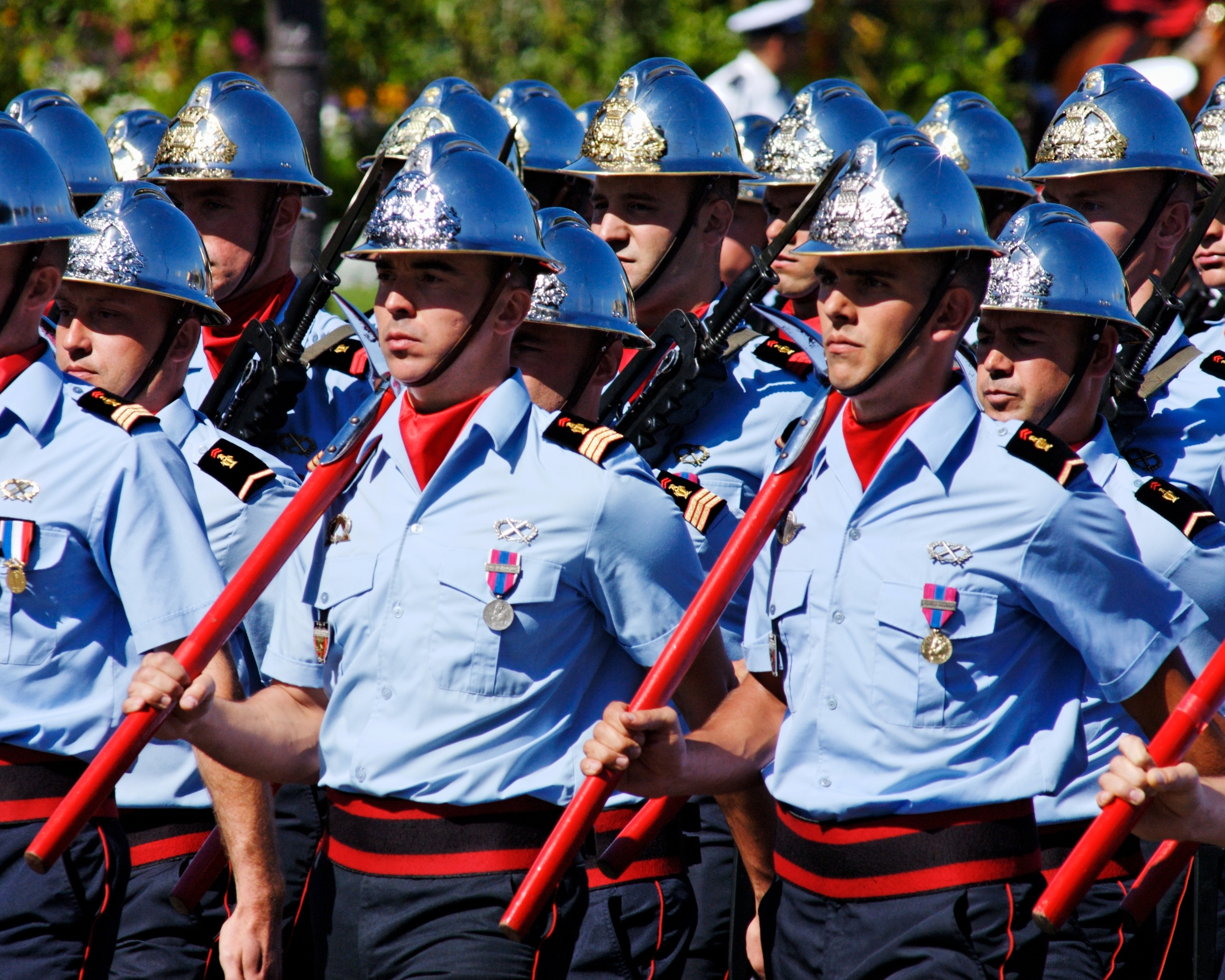 Firemen of the Paris brigade, Bastille Day 2008 military parade on the Champs-Élysées, Paris.